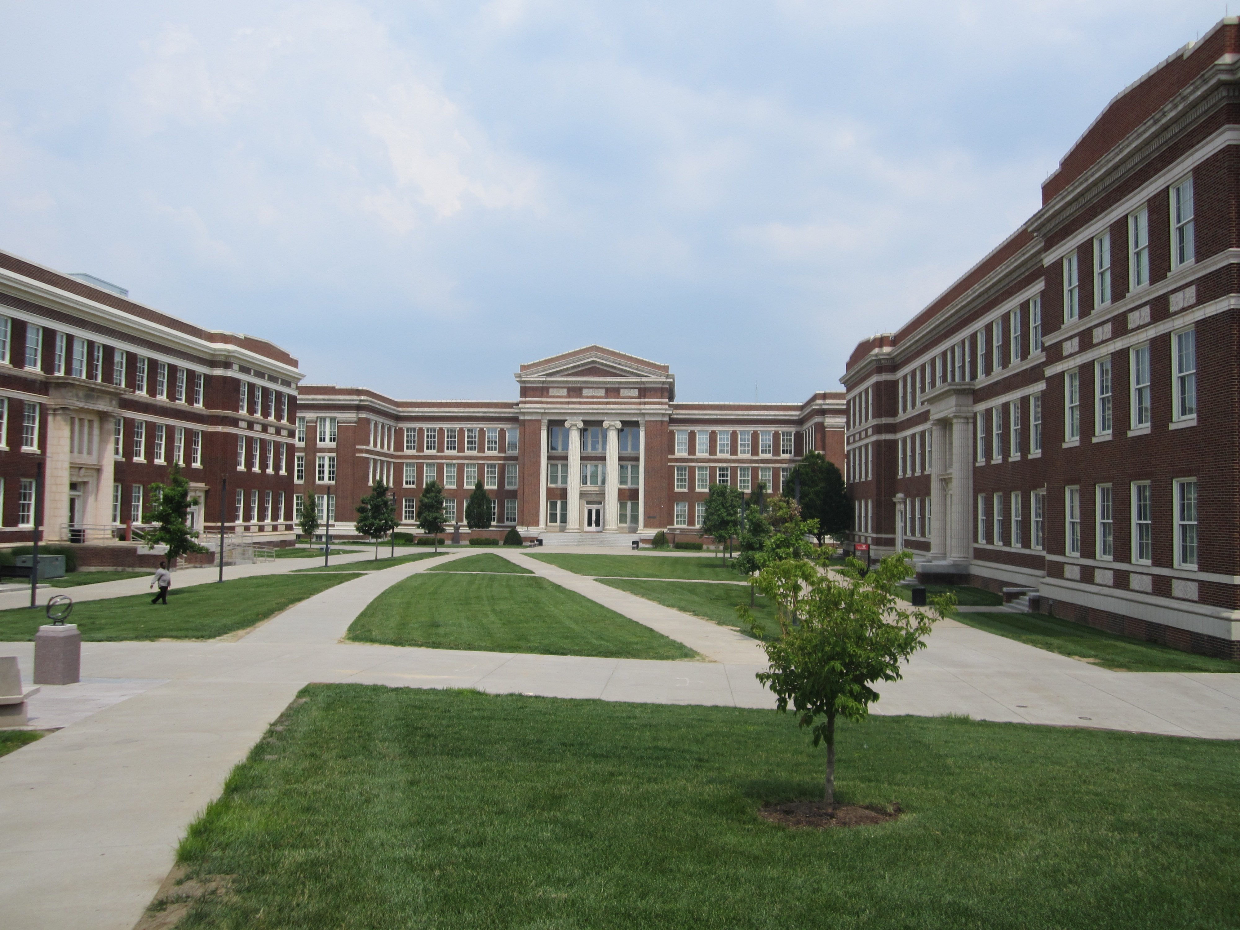 Schneider Quad on the University of Cincinnati main campus.